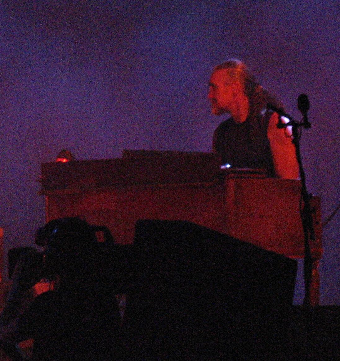 Picture of Boom Gaspar, touring keyboardist for Pearl Jam, in concert, taken on September 14, 2006.